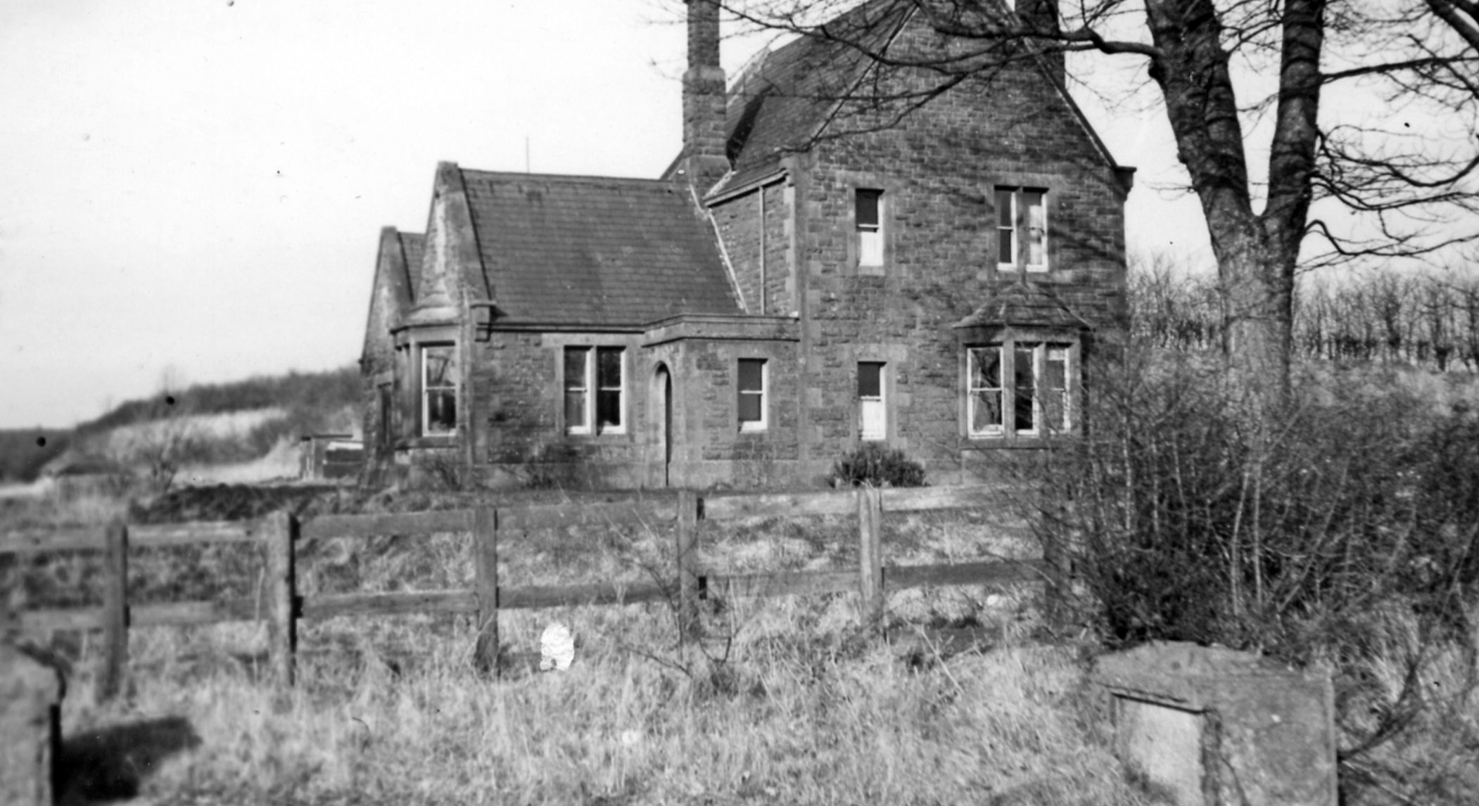 Papcastle station, remains 1952View northward towards Bullgill on the Derwent Extension of the Maryport & Carlisle Railway. The station had been closed since 1/7/21, but the line remained for freight until 6/4/35.